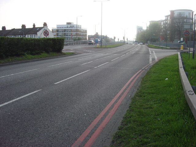 A12, Eastern Avenue The entrance to Newbury Park tube station is on the right marked by London Transports familiar roundel